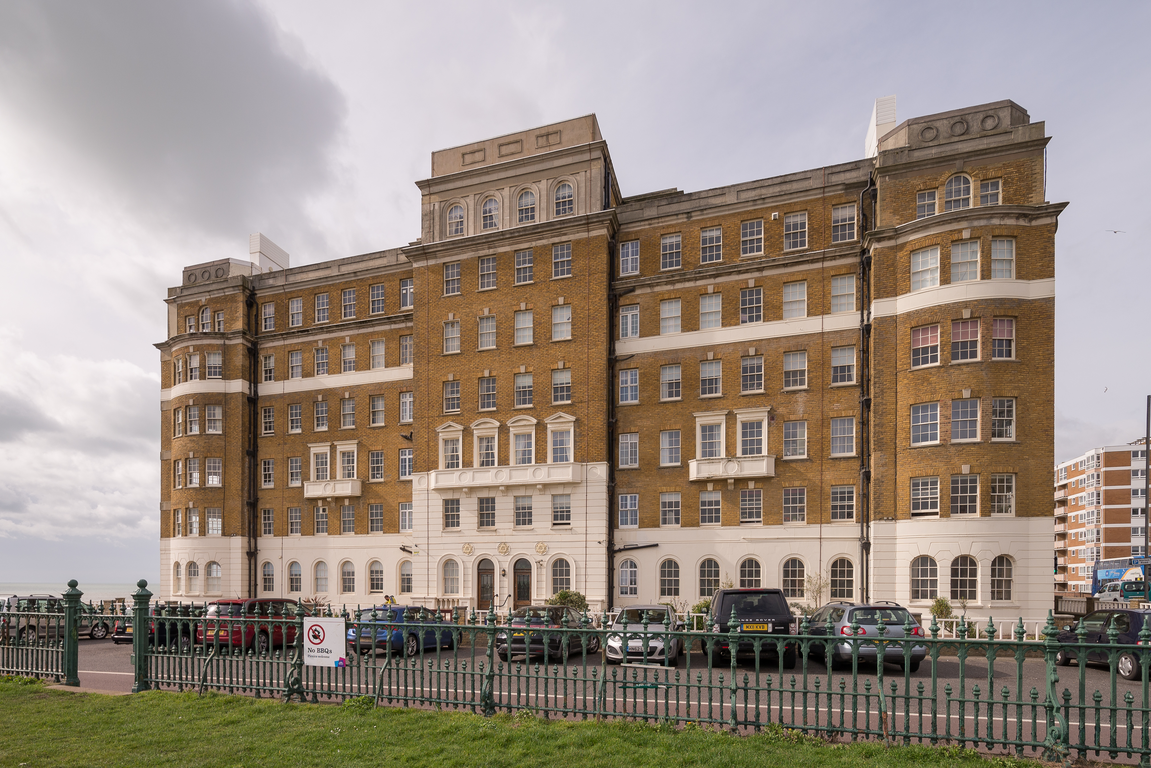 Courtenay Gate is apartment block on the seafront in Hove, part of the English coastal city of Brighton and Hove. Situated in a prominent position next to the beach and overlooking Hove Lawns, the six-storey block is Neo-Georgian in style and dates from 1934.